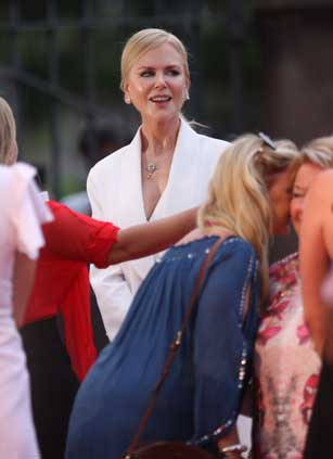 Australian Premiere of DESTROYER at St.George OpenAir Cinema with Nicole Kidman